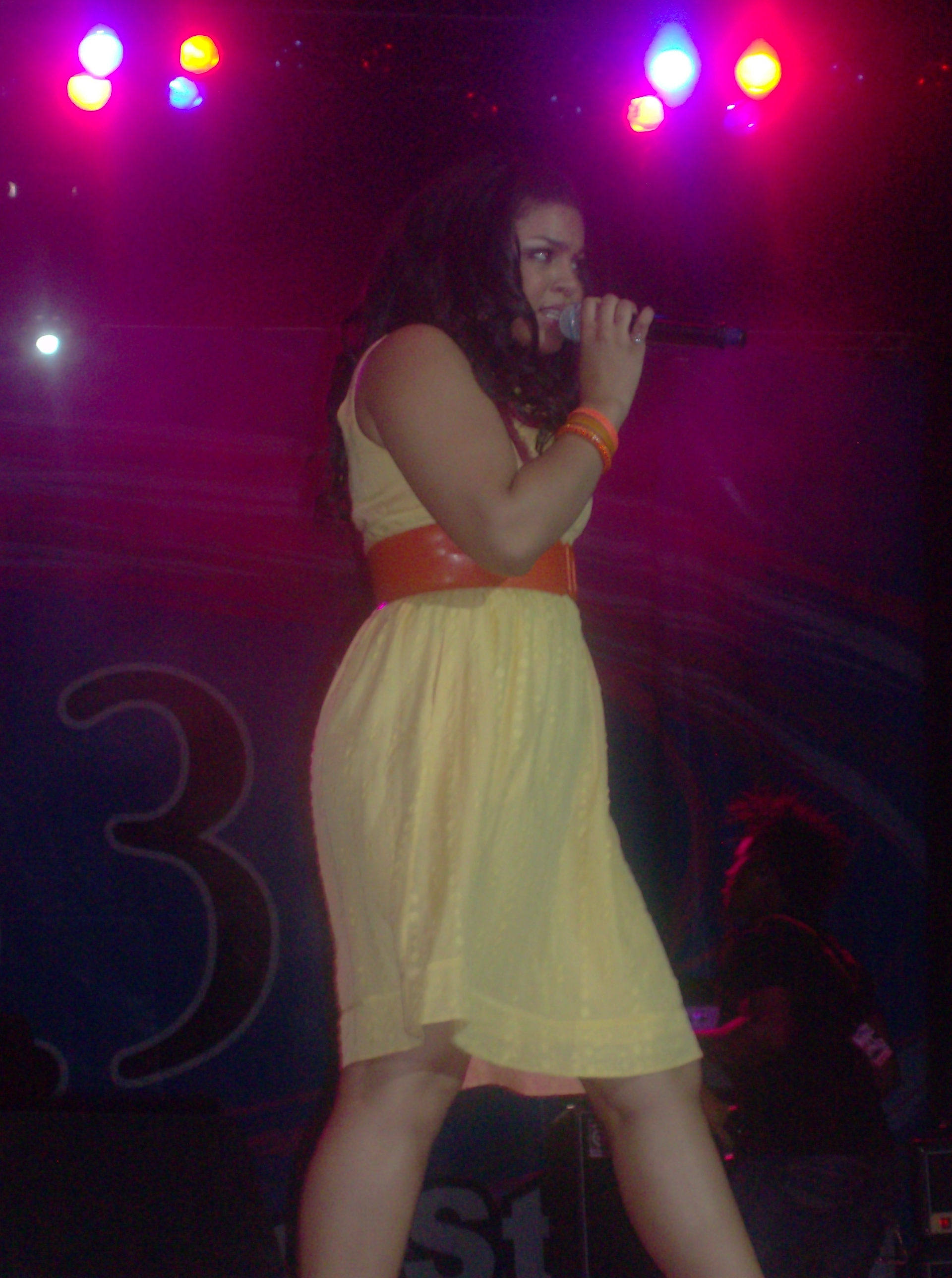 Jordin Sparks live in Kansas City